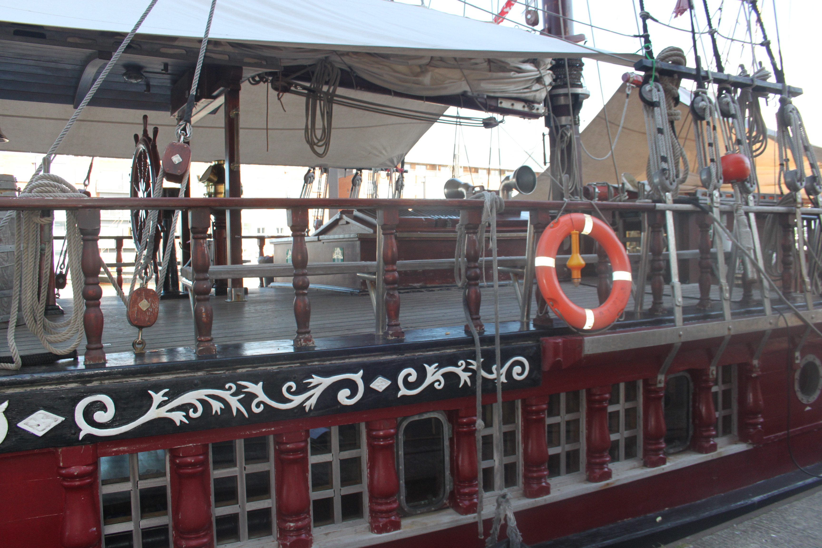 The tall ship Atyle in Gloucester Docks